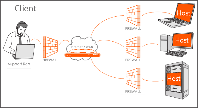 Client versus Host network diagram example - Remote desktop